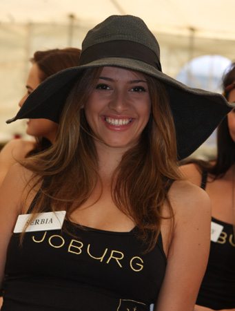 Miss Serbia 2008 Nevena Lipovac during Miss World 08